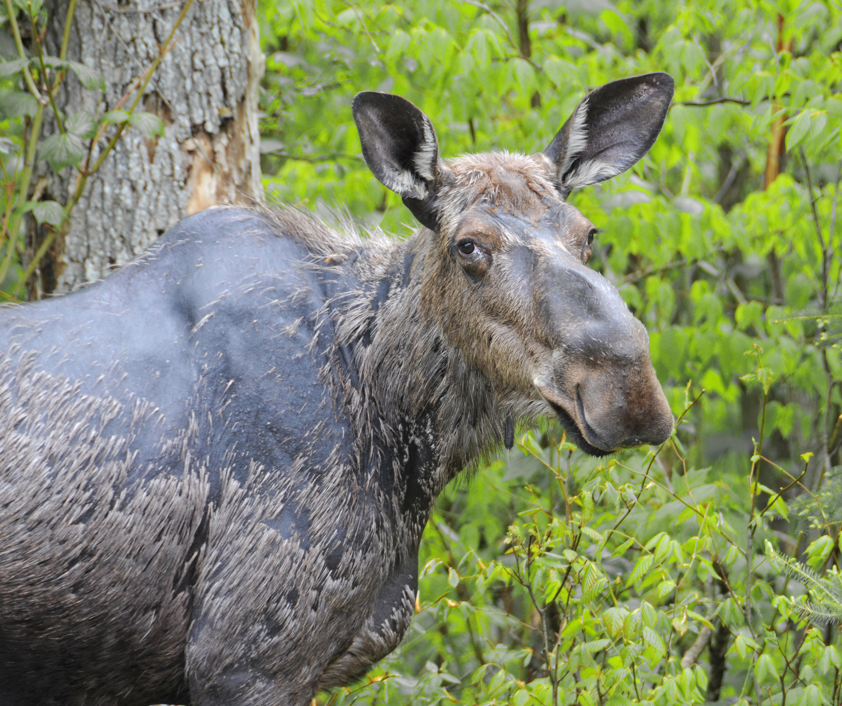 This is a female moose browsing and taking roadsalt from the mud off the shoulder of highway 60 in Algonquin Park, Ontario, Canada. She is still losing her winter coat.